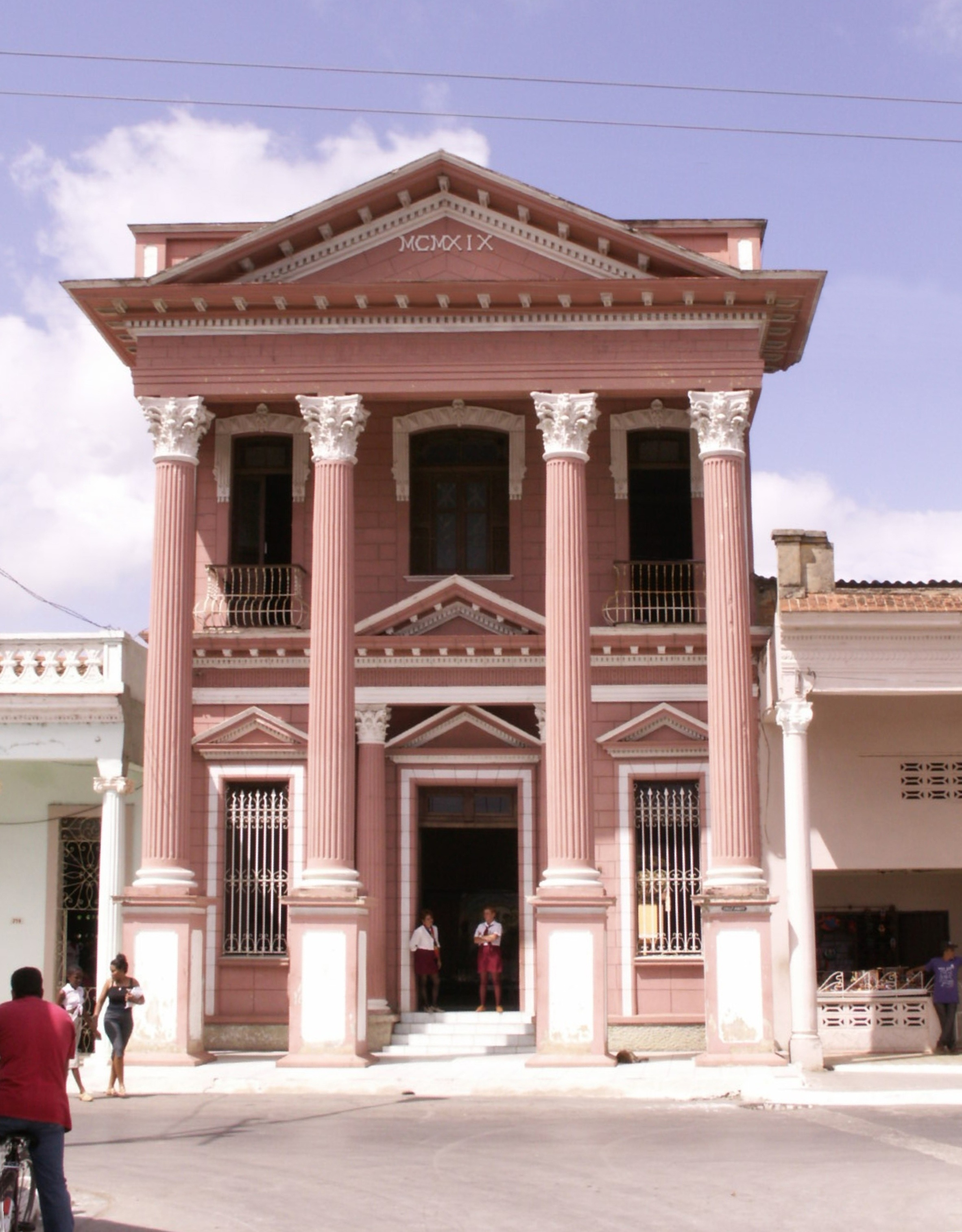 City museum of Morón, Morón, Cuba. Main Neoclassical facade of building, taken from Calle Martí.